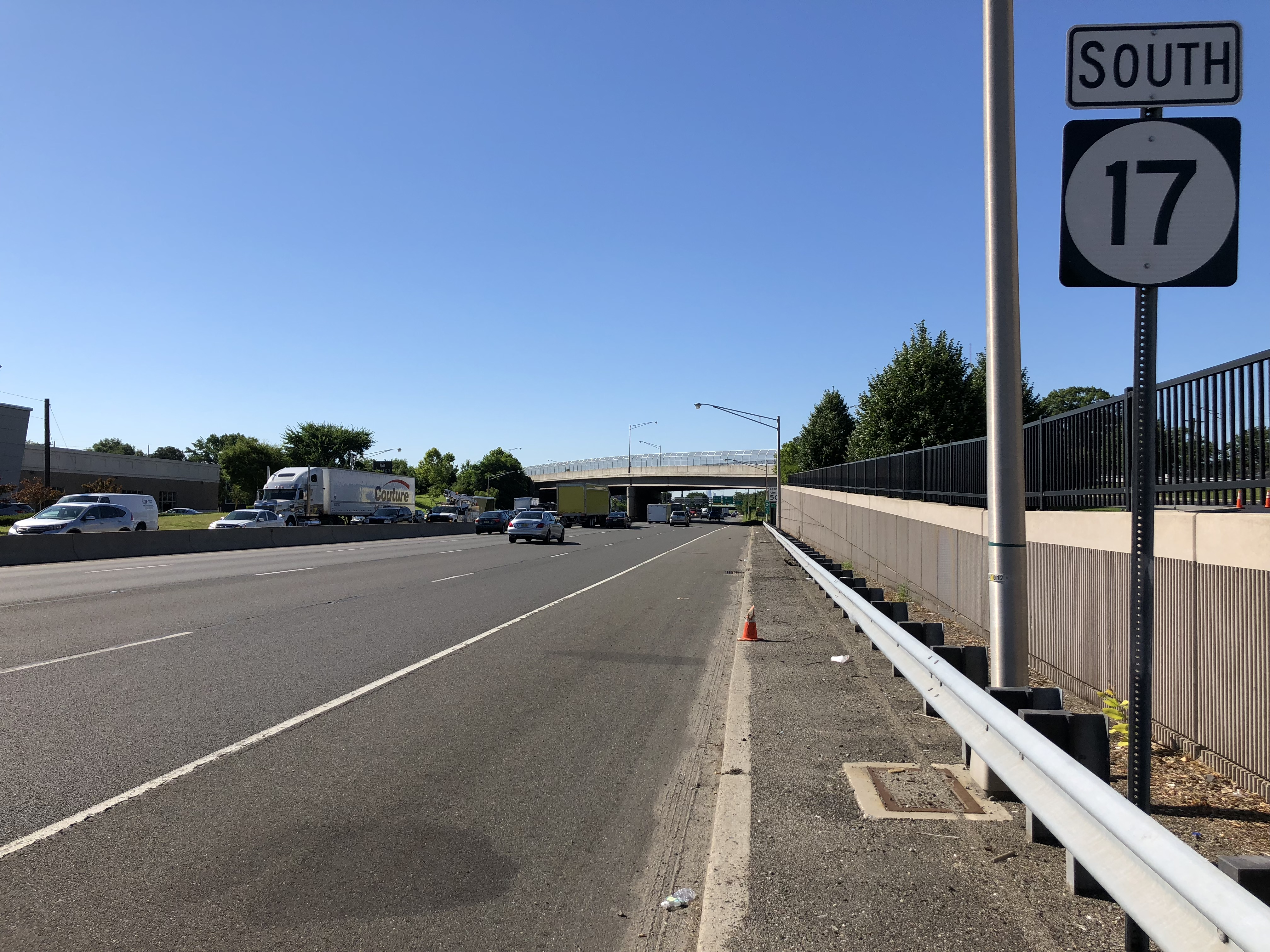 View south along New Jersey State Route 17 just south of the exit for Bergen County Route 56 (Essex Street) in Maywood, Bergen County, New Jersey